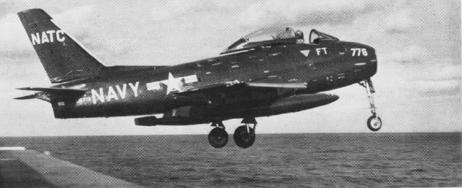 The third production North American FJ-3 Fury (BuNo 135776) during carrier trials aboard the aircraft carrier 'USS Coral Sea (CVA-43) in 1955.